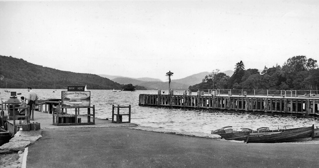 Bowness-on-Windermere landing-station. View SW, down Lake Windermere. This is not strictly Railway Station, but the lake steamers were formerly operated by the Furness Railway.